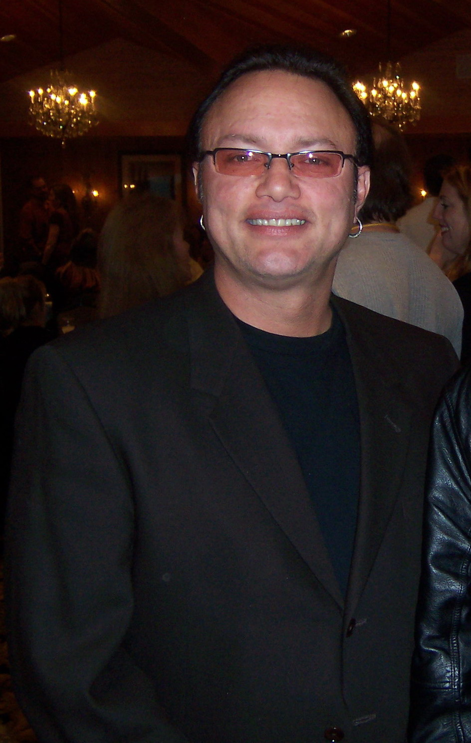 Geoff Tate of Queensryche at the Edgewater Hotel in Seattle